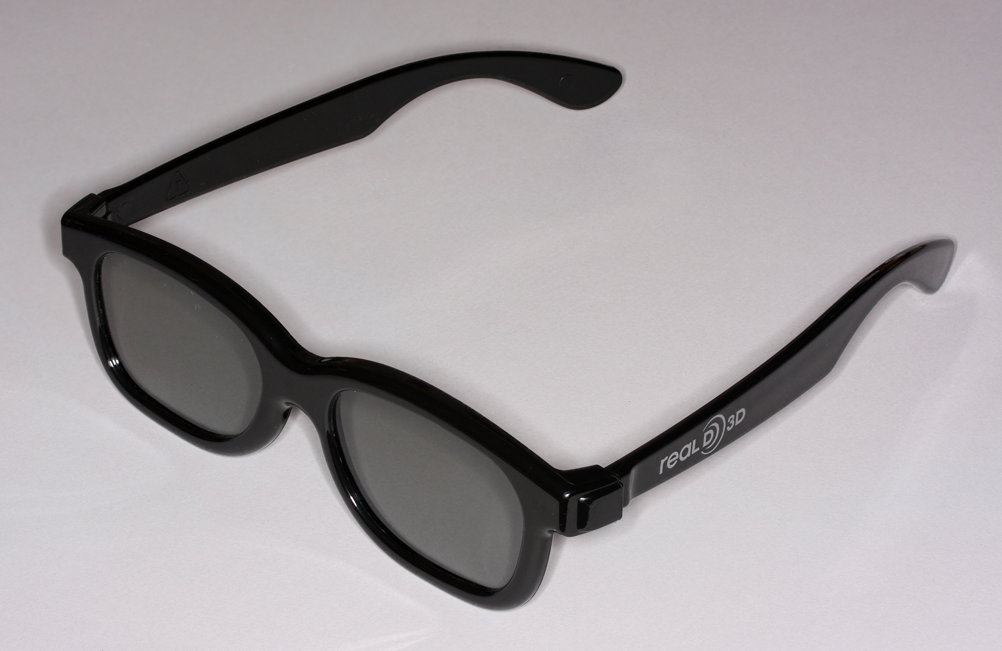 Glasses for the RealD Cinema